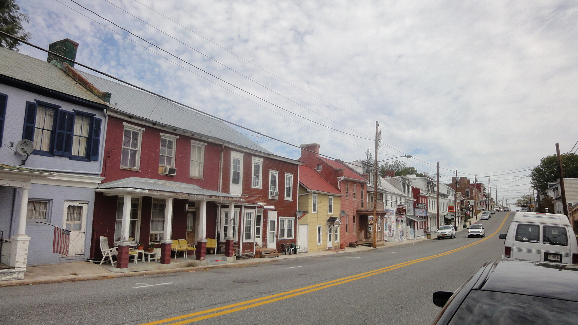 An image of Cumberland Street (U.S. Route 40) in Clear Spring, MD.